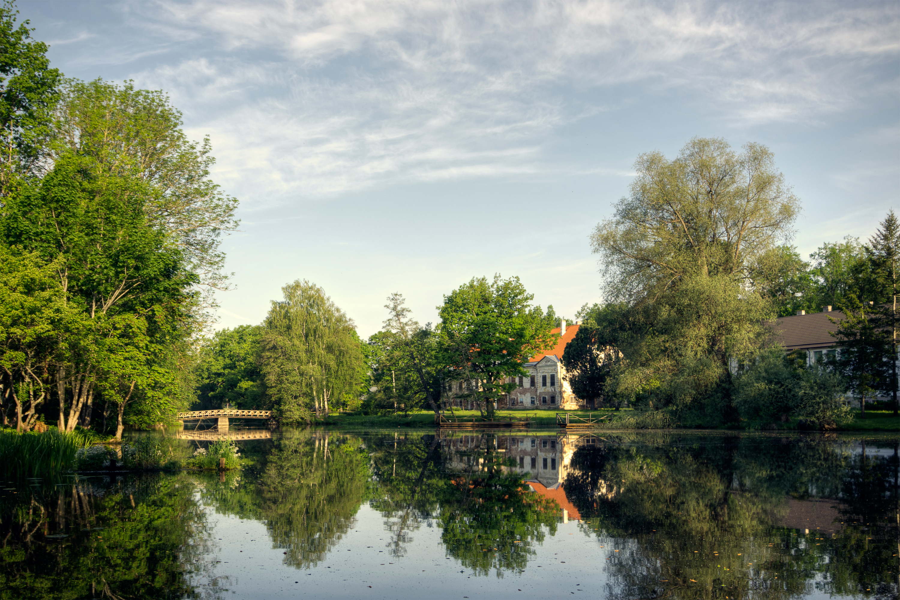 Ahja Manor park